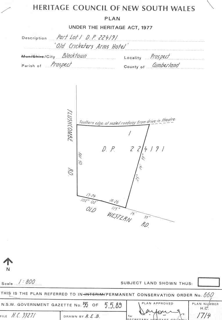 Royal Cricketers Arms Inn: PCO Plan Number 660